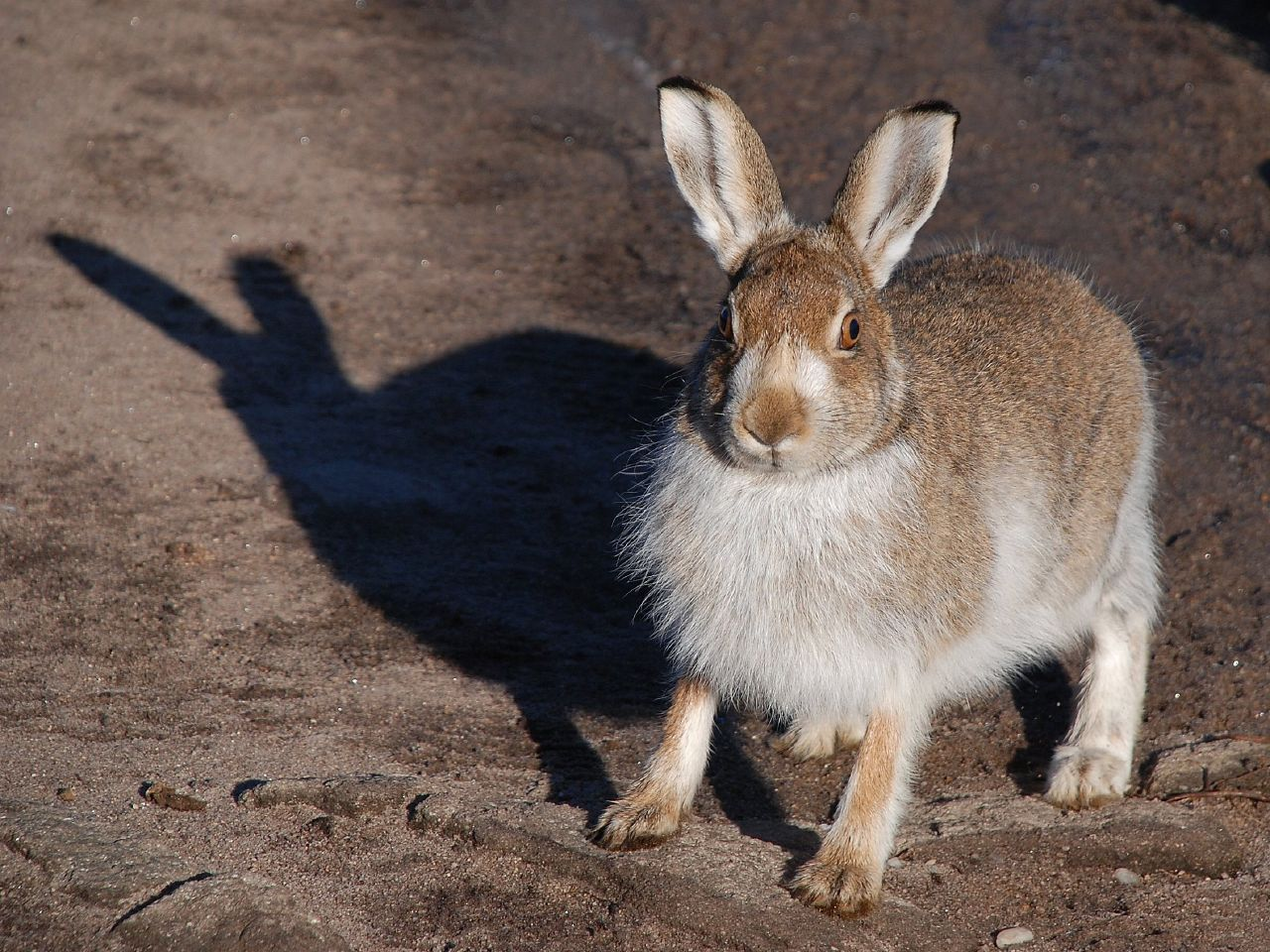 Mountain Hare (Lepus timidus) photographed in Derwent Moors, England, GB. Derivative work: original cropped and levels adjusted.